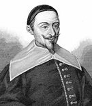 Claude-Gaspard Bachet de Méziriac (1581-1638), French mathematician